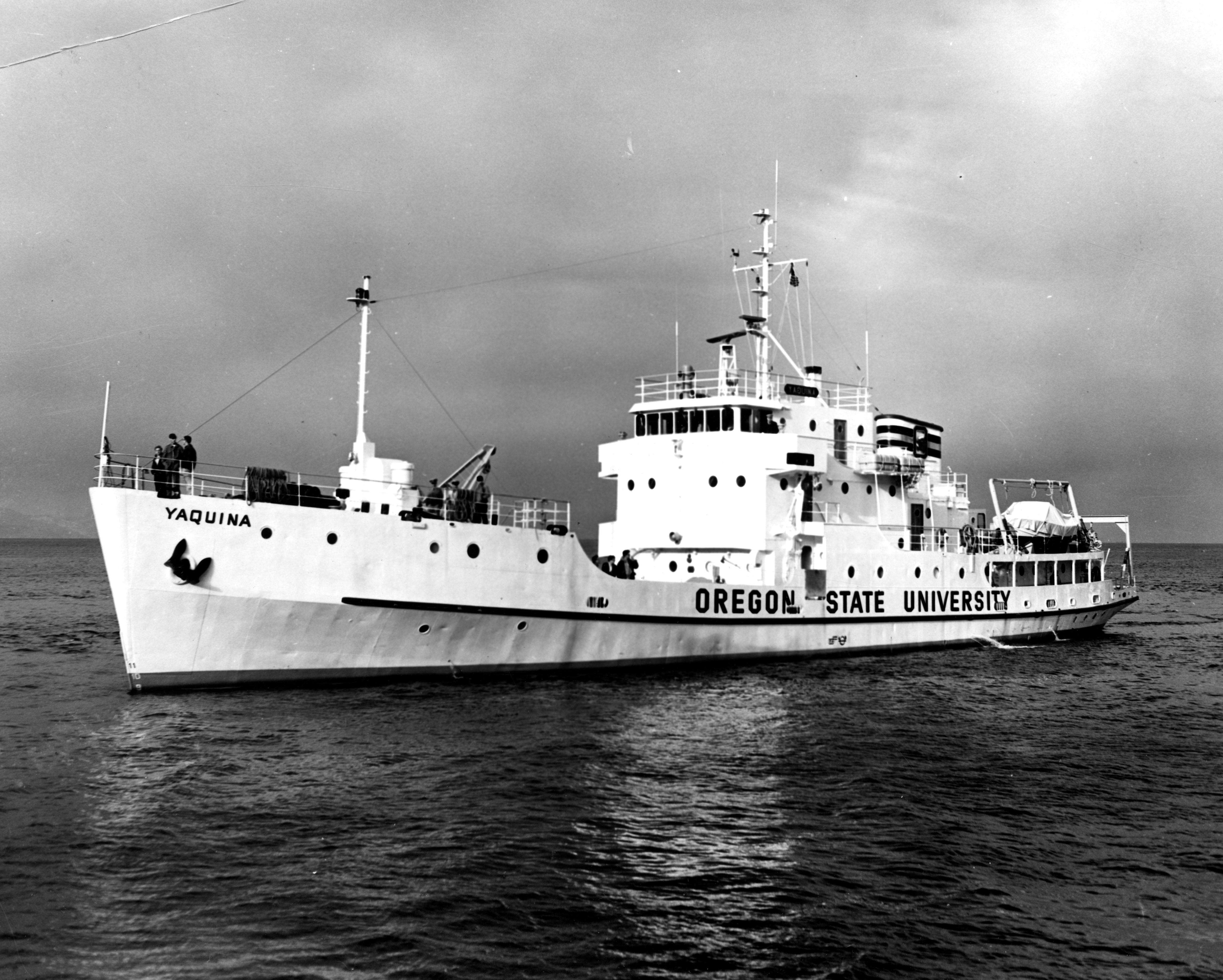 Original Collection: Historical File, OSU Item Number: P025:2082 You can find this image by searching for the item number by clicking Want more? You can find more We're happy for you to share this digital image within the spirit of The Commons; however, certain restrictions on high quality reproductions of the original physical version may apply. To read more about what “no known restrictions” means, please visit the or contact staff at the OSU Special Collections & Archives Research Center for details.